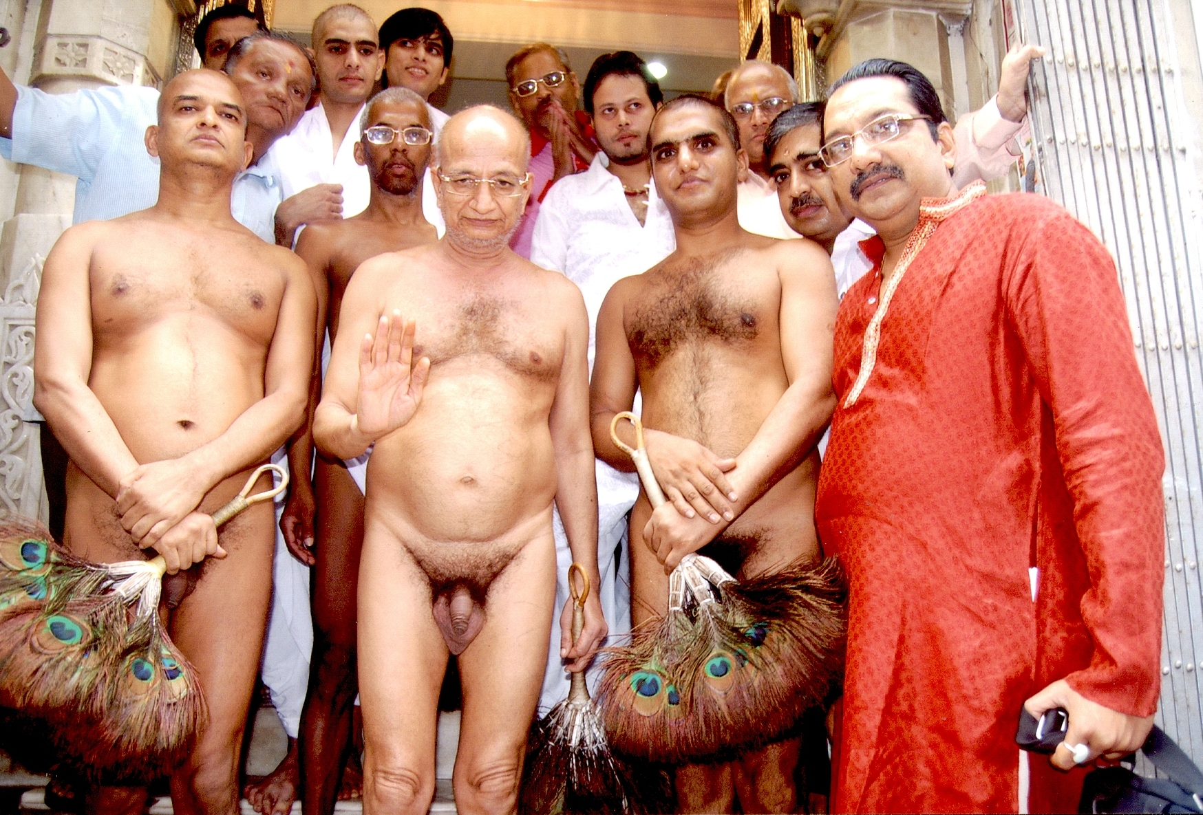 Venerable Jain monk of Digambara tradition, His Holiness, Acarya Pushpadantasagara on his 31st Anniversary of initiation as a Jain monk at Silvassa near Gujarat. Acharya Pushpadantsagar (middle), Muni Pranamsagar (right)